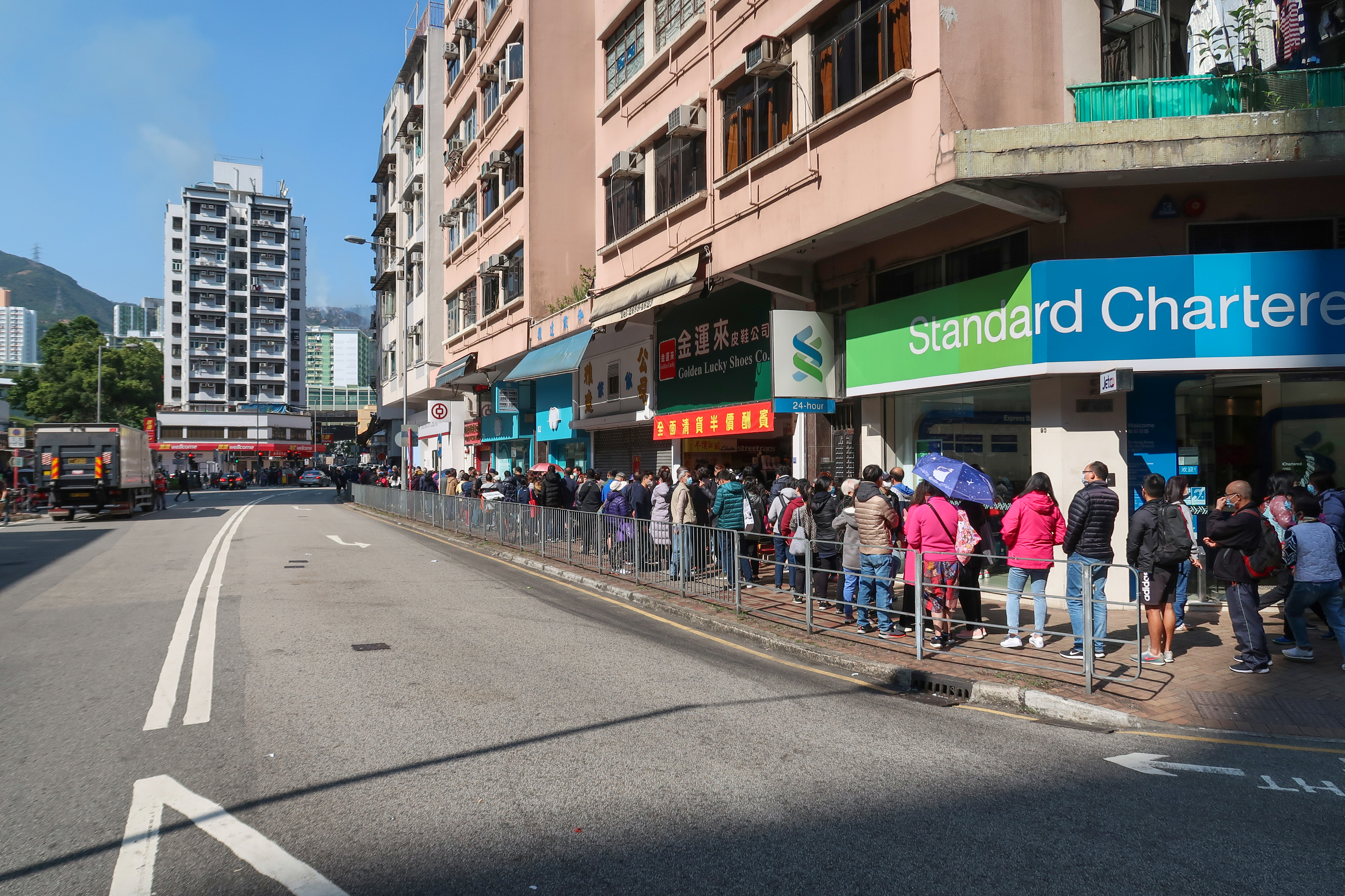 Tai Wai pharmacy queue to buy the mask